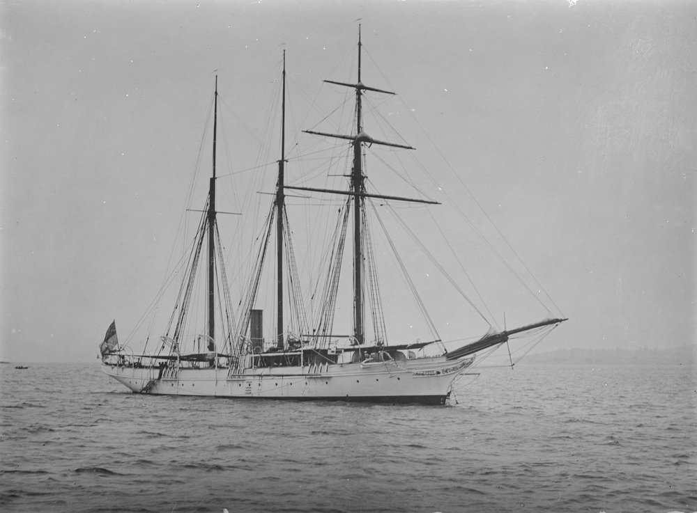 Survey vessel HMS Waterwitch built 1878 by R. Steel & Co of Greenock. Sunk Singapore Harbour 1912